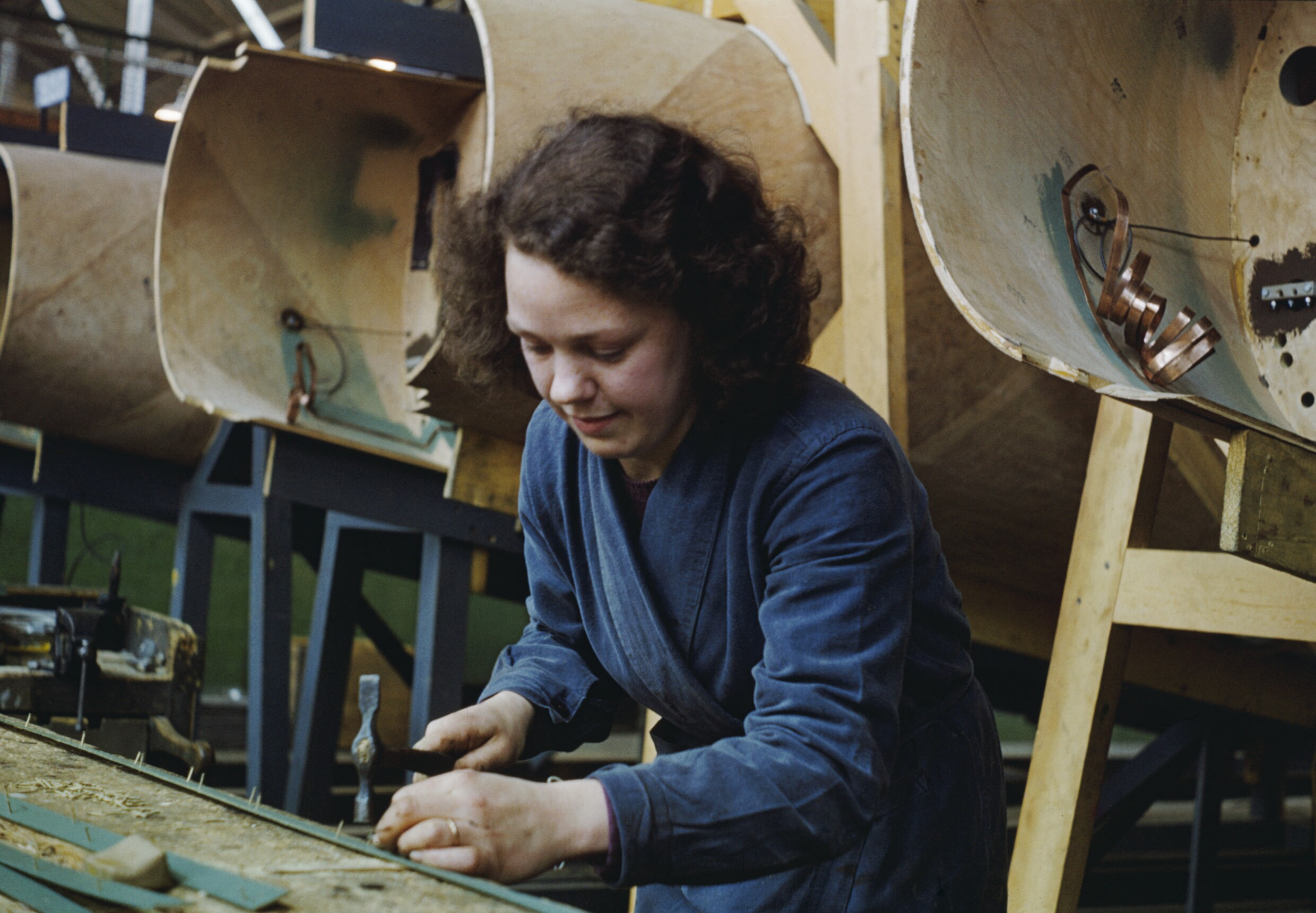 Building Mosquito Aircraft at the De Havilland Factory in Hatfield, Hertfordshire, 1943 Mrs Judd prepares strips of wood to tack over gauze inside the hull of a Mosquito aircraft.